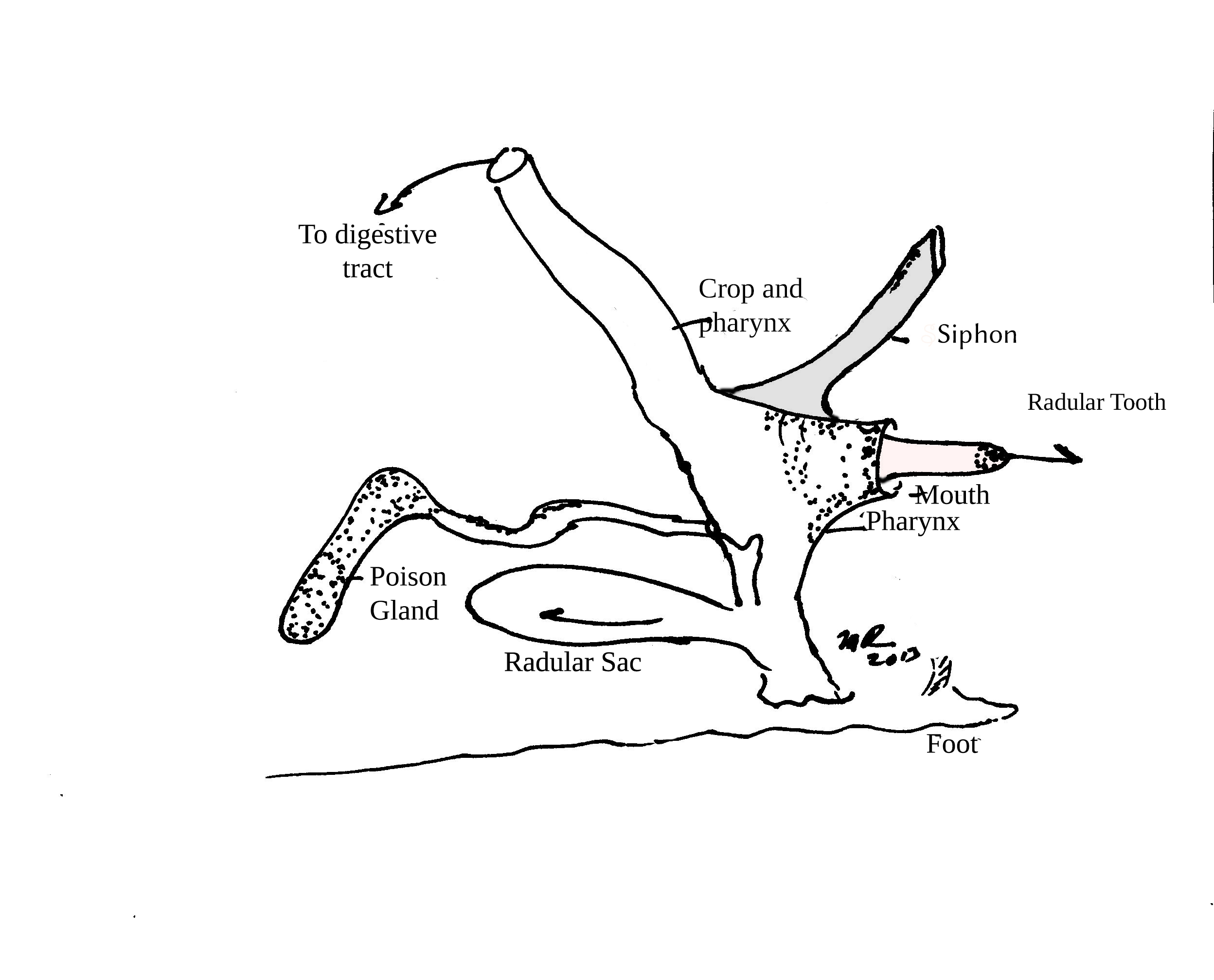 Generalized venom sac and radula of a cone shell (Conus spp.)